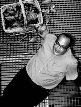 Photo of Ali Lmrabet, Moroccan independent journalist, banned by the Moroccan regime for 10 years. Madrid, Spain, May 2006.